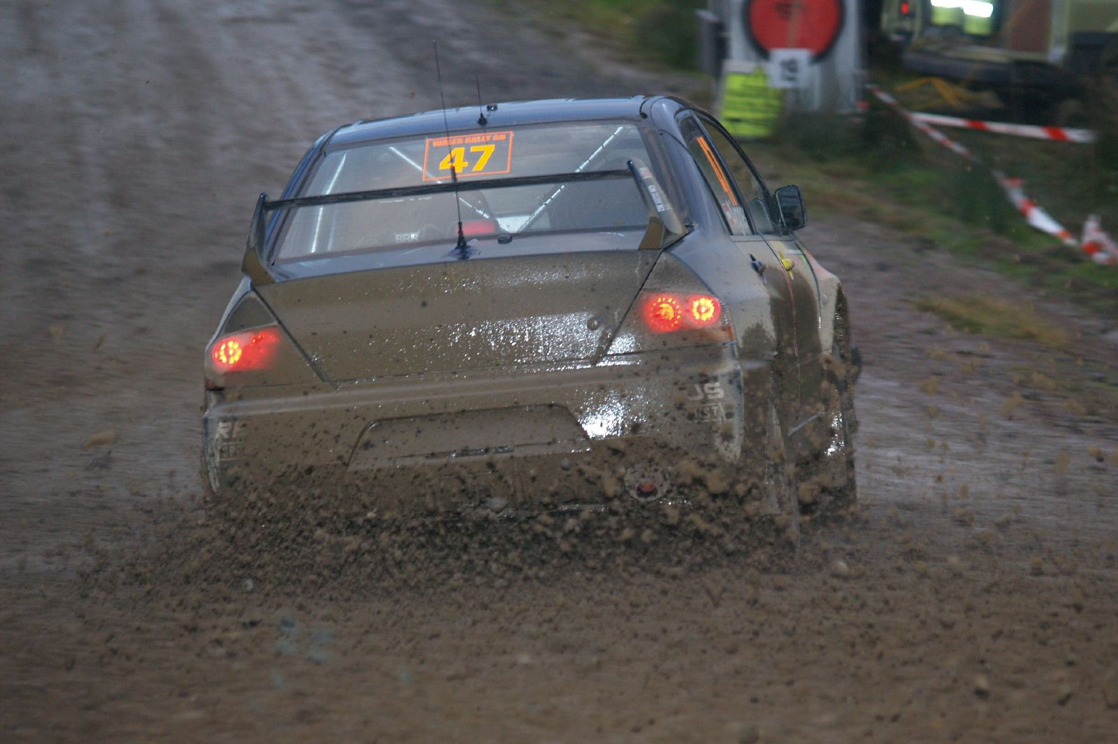 Andreas Aigner driving his Mitsubishi Lancer Evolution during 2007 Wales Rally GB.